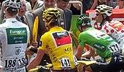 Start line of the last stage of the Tour de France 2011.